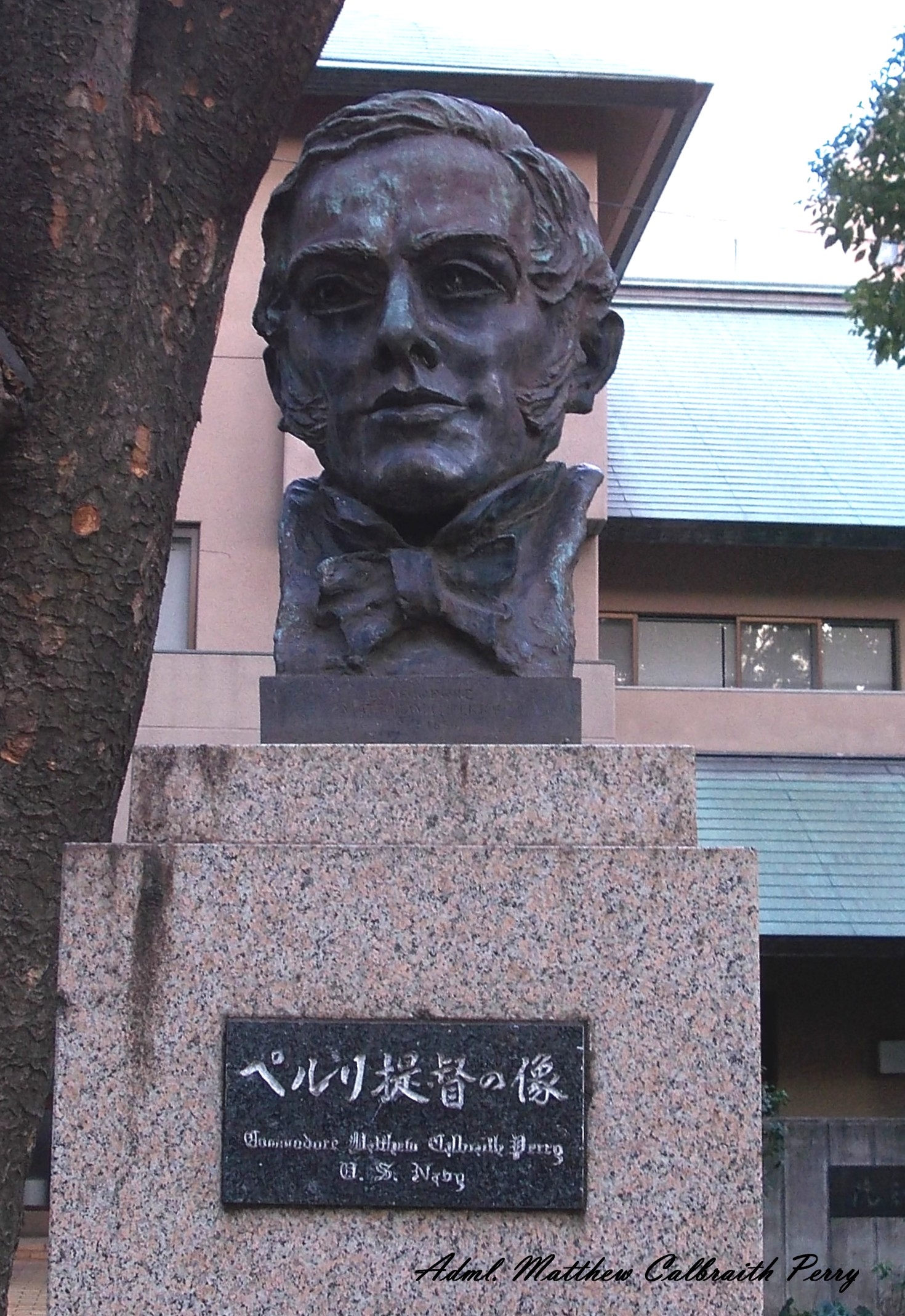 Bust of Matthew Perry, Shimoda, Minato-ward Tokyo, Japan ,ペルリ提督、ペリー提督